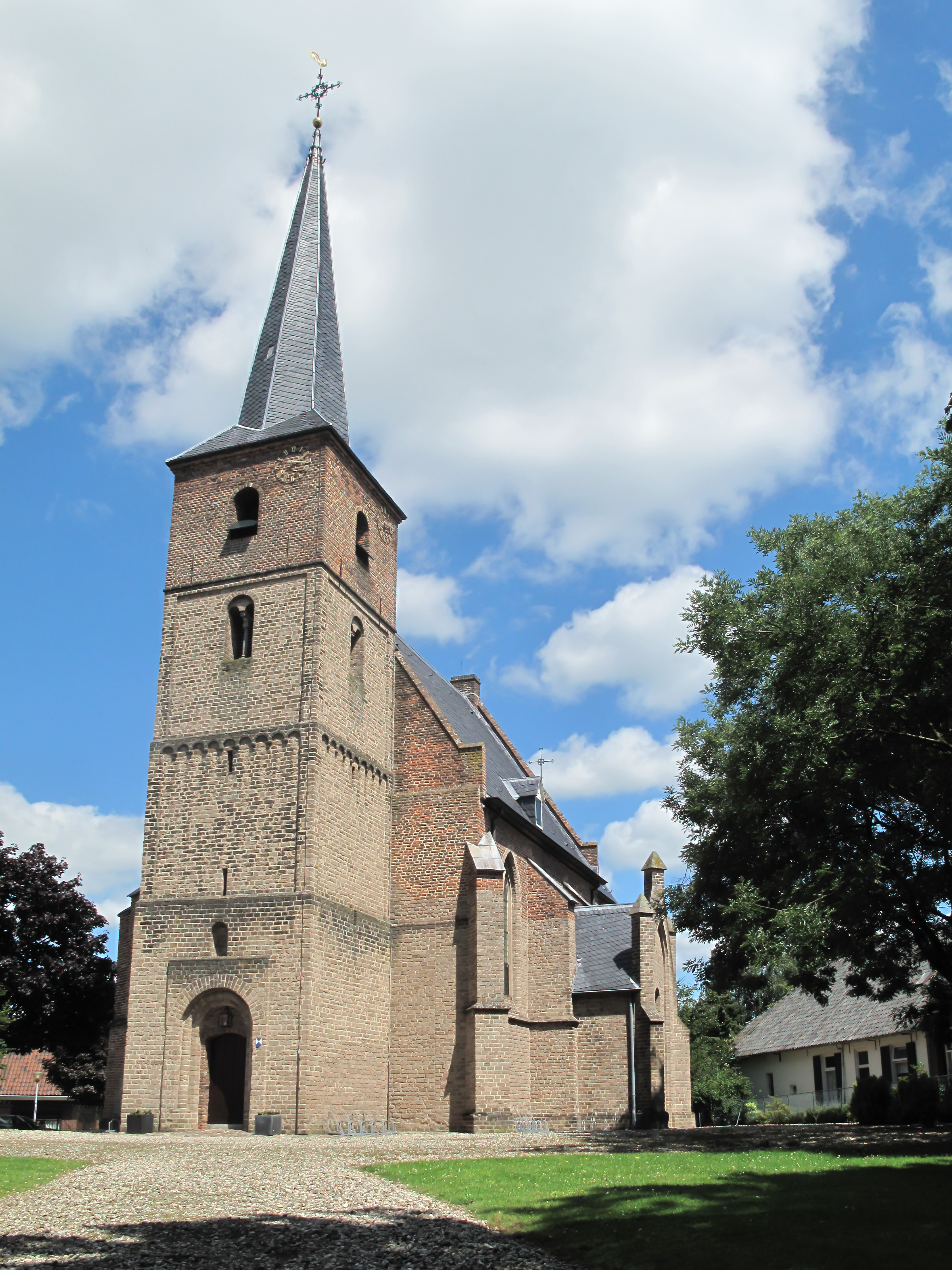 Etten, reformed church